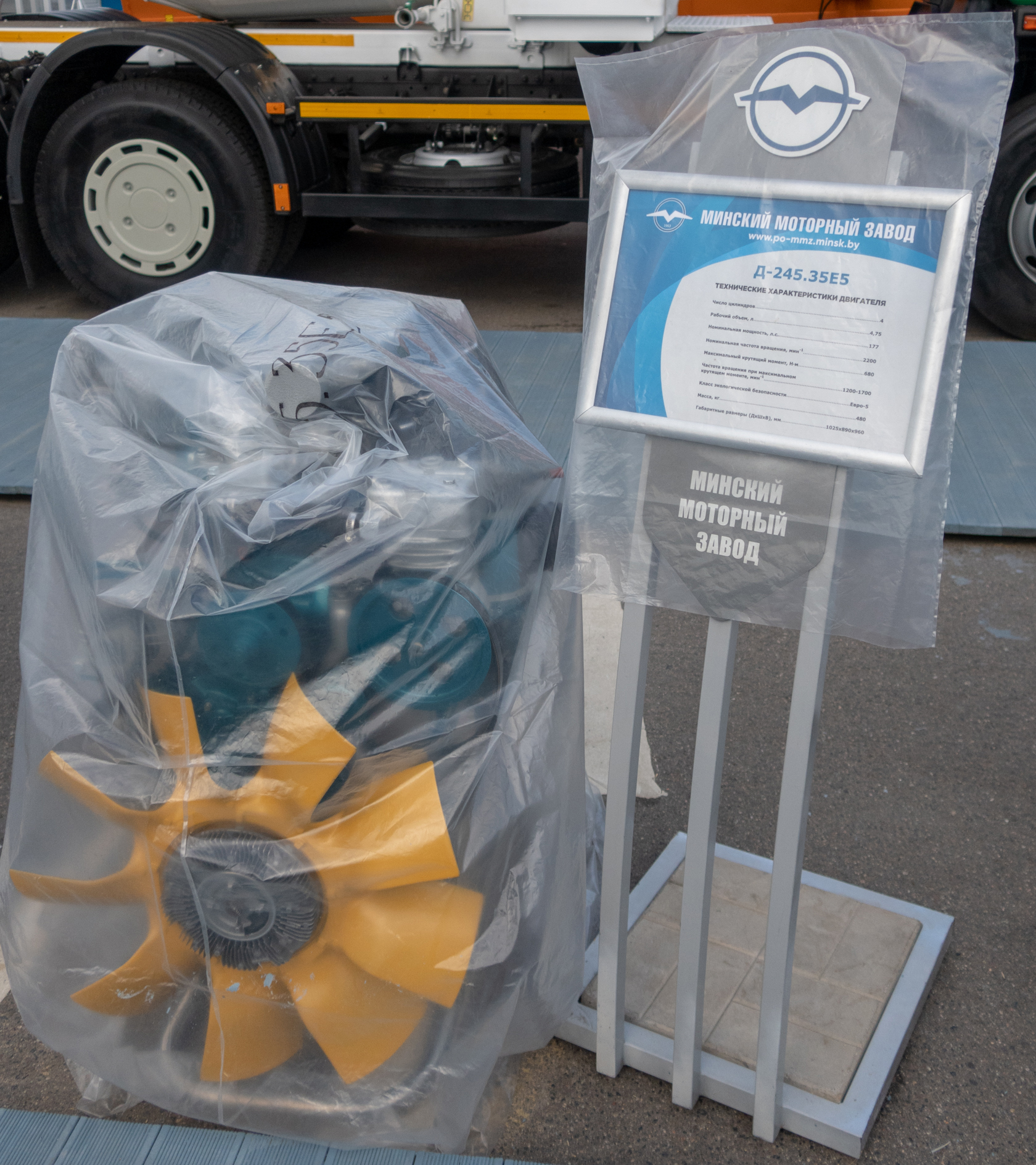 Diesel engine MMZ D-245.35E5 (177 hp, Euro-5)